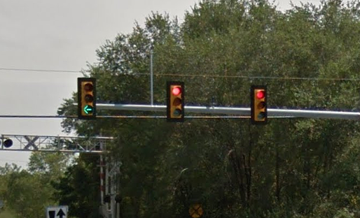 Traffic Light in Staunton, VA in Sep 2012